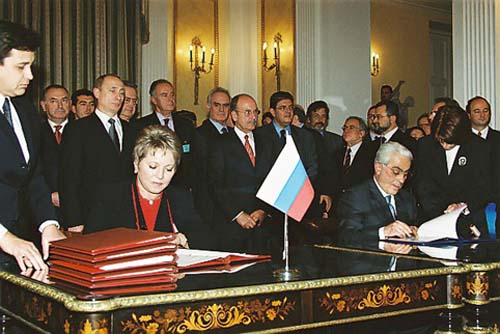 ATHENS. President Putin at a ceremony of signing joint documents. Deputy Prime Minister Valentina Matviyenko signed on behalf of the Russian Federation.